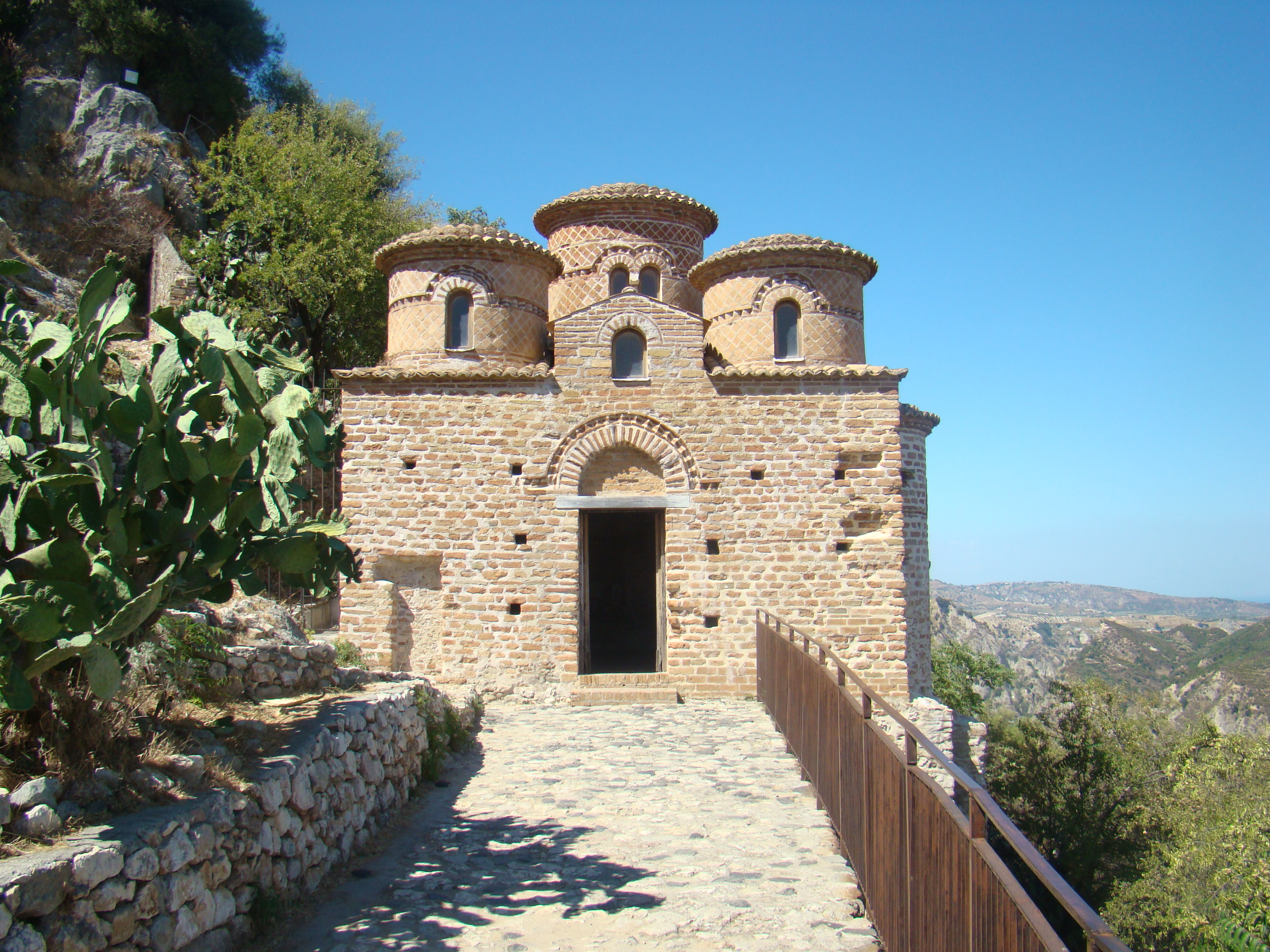 The Cattolica di Stilo is a Byzantine church in the comune of Stilo, Calabria, southern Italy. It is a national monument.